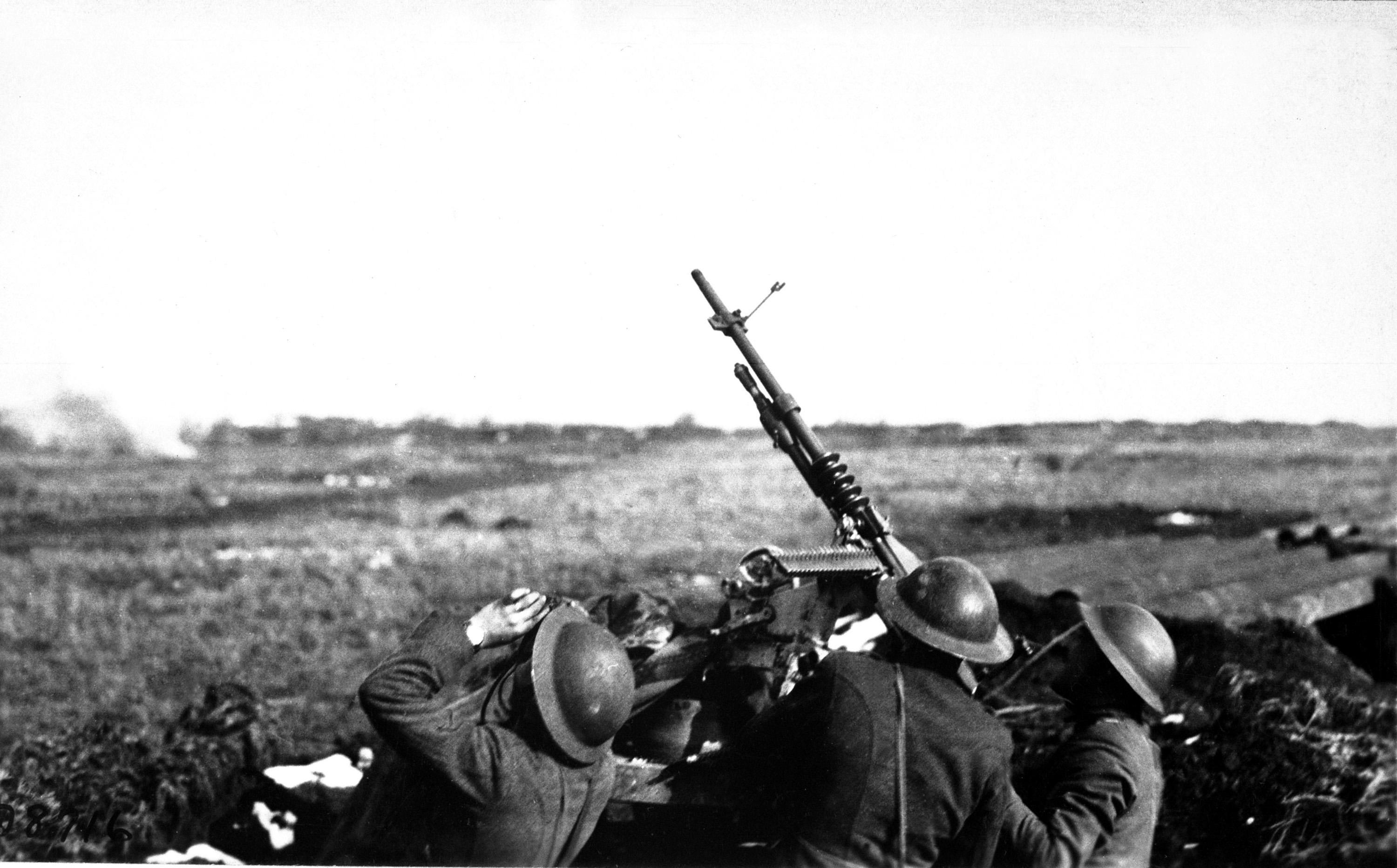 American soldiers with Hotchkiss Mle 14 or Mle 1900 MMG firing on a German observation plane. Original caption: Anti-aircraft MACHINE GUN of 101st Field Artillery (formerly 1st Massachusetts F.A., New England Coast Artillery), firing on a German observation plane at Plateau Chemin des Dames, France. March 5, 1918. Lt. Edwin H. Cooper. (Army) NARA FILE #: 111-SC-8716 WAR & CONFLICT BOOK #: 622